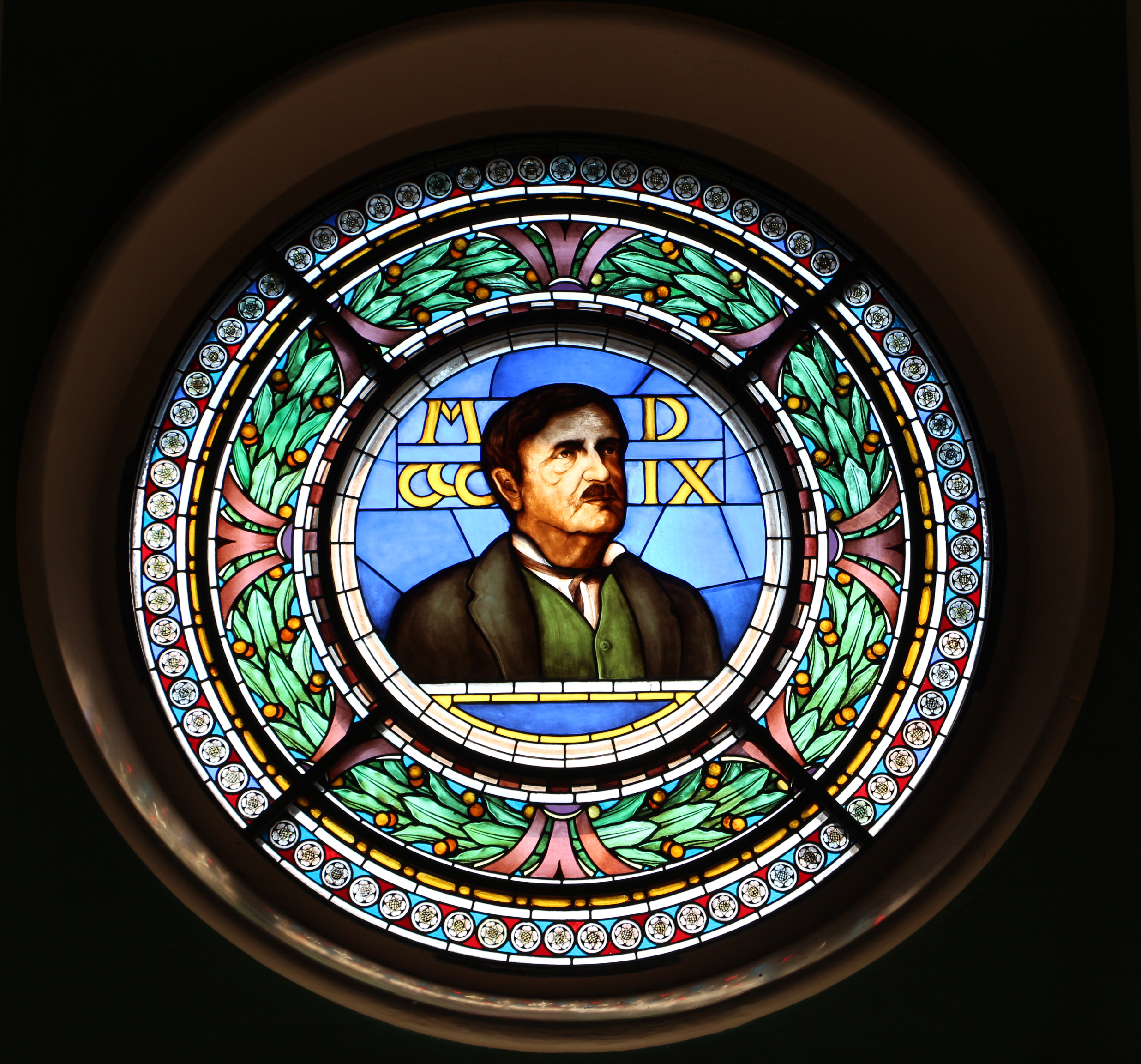 Rocchetta Mattei - Interior